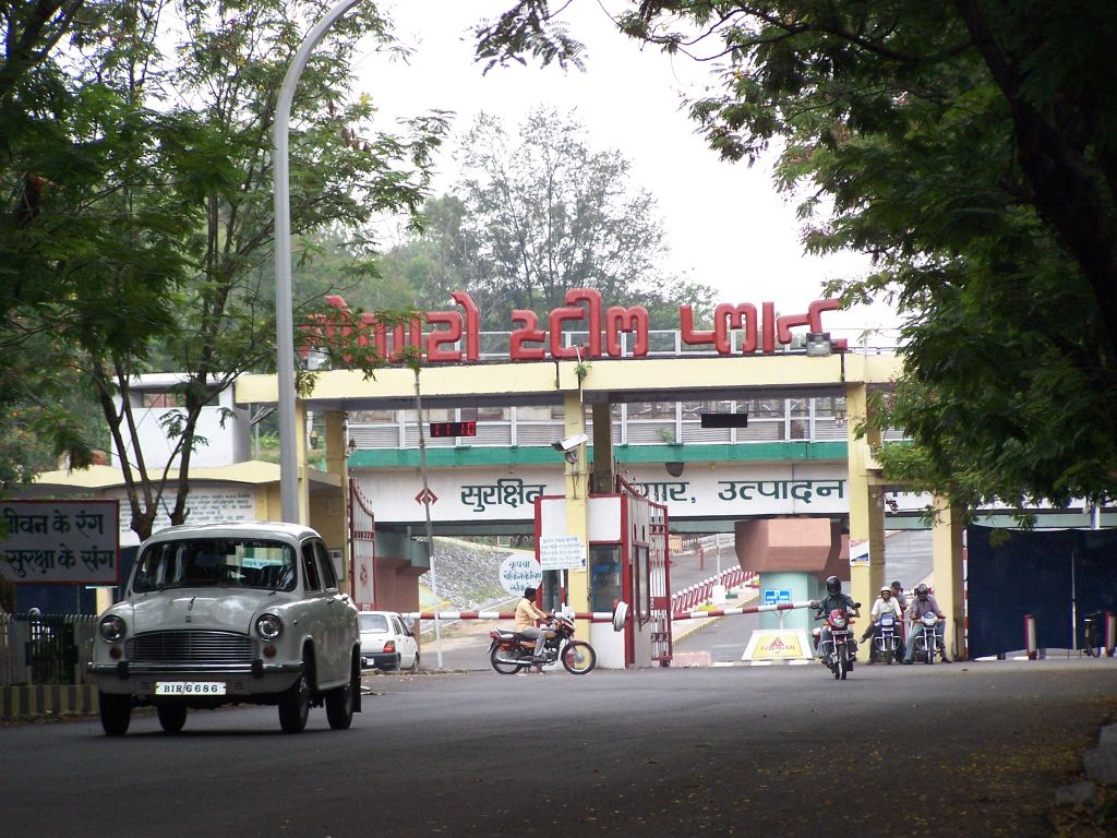 Bokaro Steel Plant Main Gate